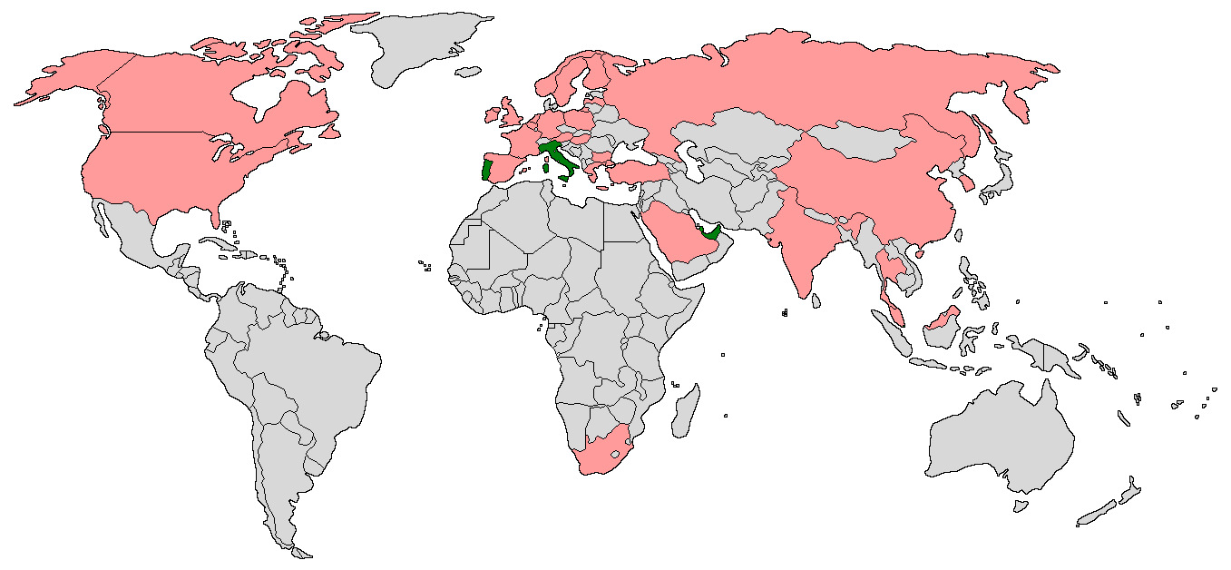 World map displaying the countries raced in by the Formula 1 Powerboat World Championship in its 2005 season in green. Former host nations shown in pink.